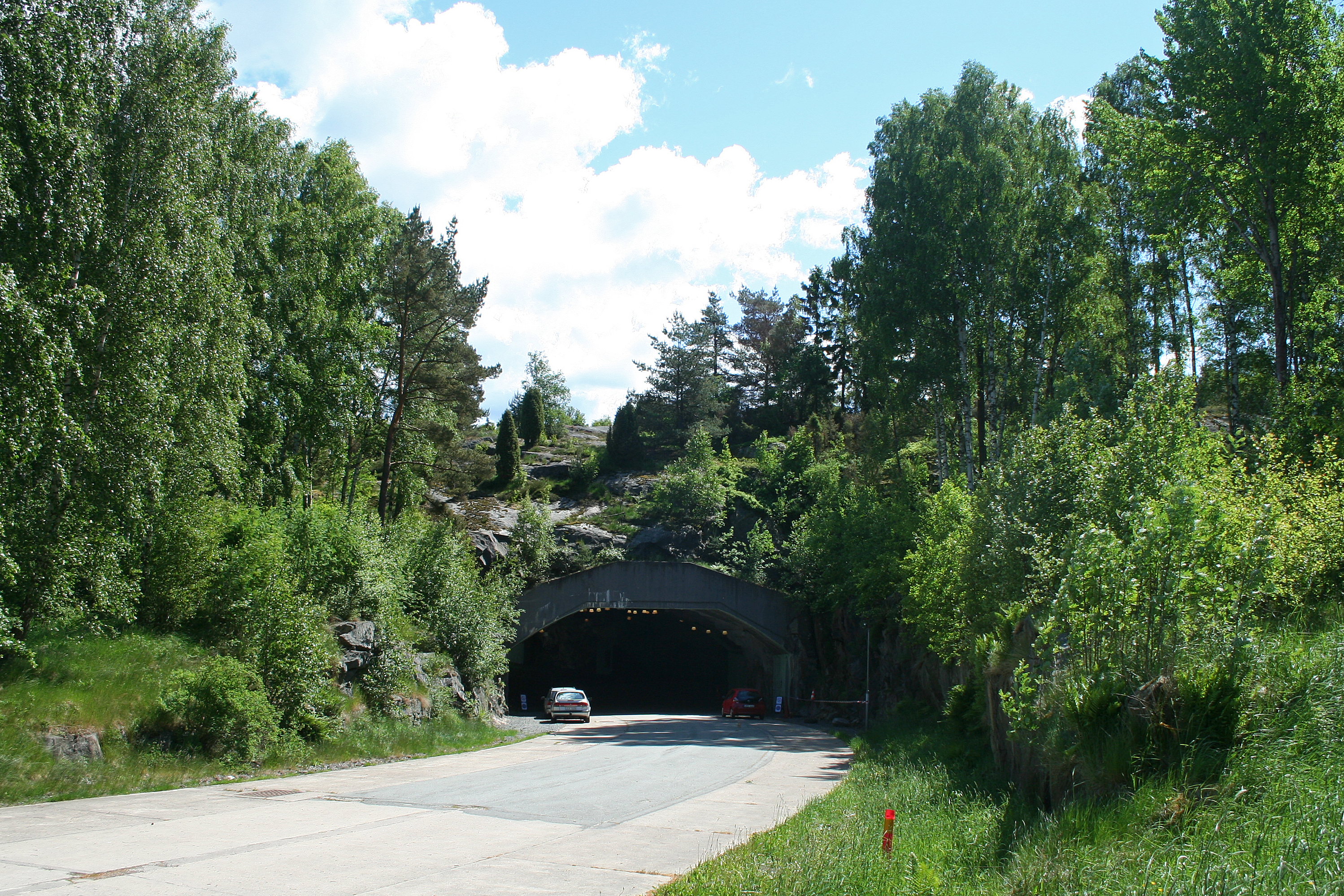 Not your average Hangar entrance! The entire museum is in an underground Hangar, previously used as a fighter base. The Aeroseum (Gothenburg Save), 02-6-2012